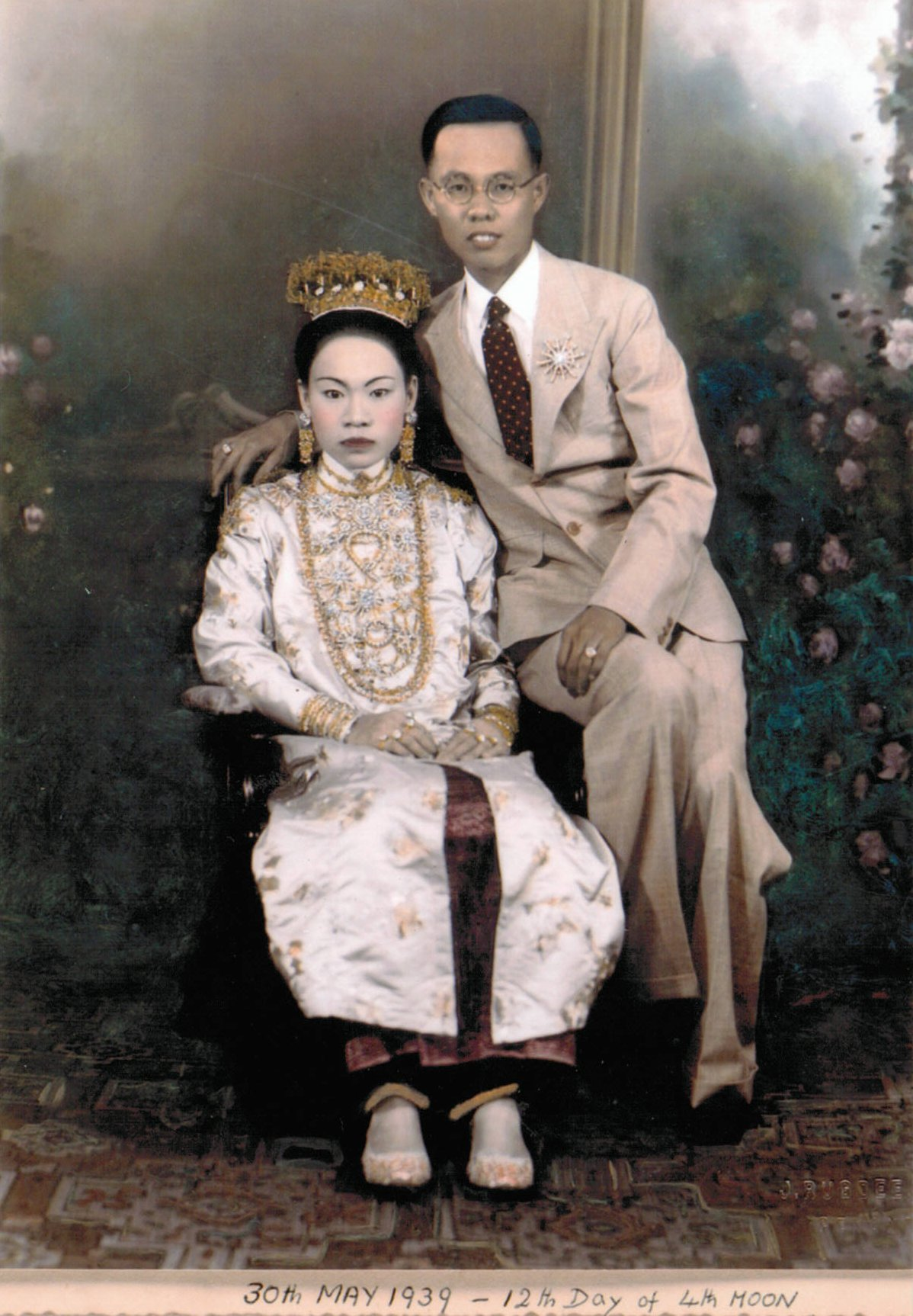 Anonymous photograph of a "Straits" (Malayan) Peranakan bride and groom dated 30 May 1939, on display at The Intan, a private Peranakan museum in Singapore.